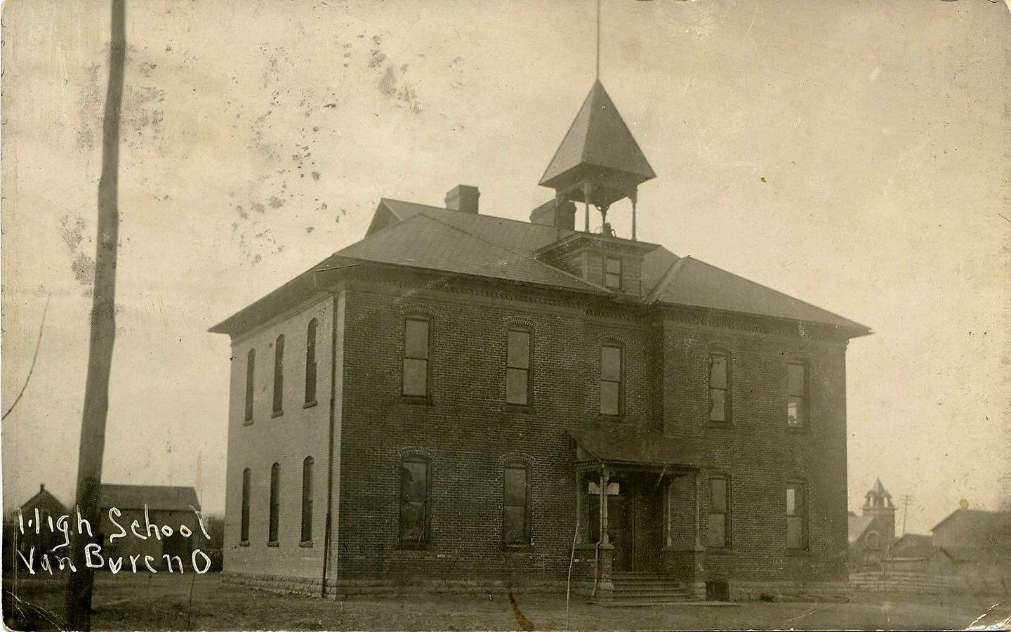 Van Buren High School building used until 1917